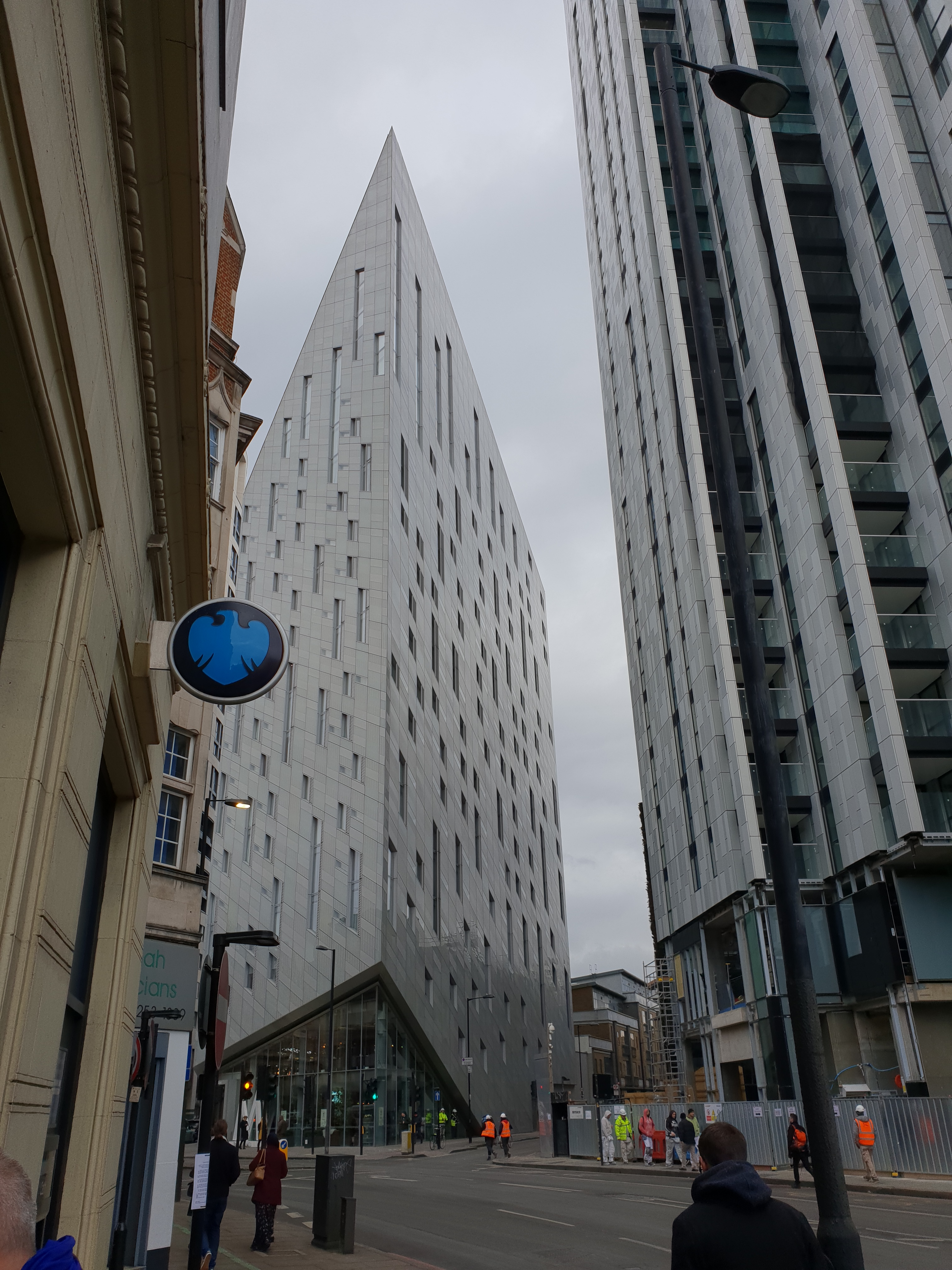 M by Montcalm, The Montcalm Hotel in Shoreditch Tech City, London - near Old Street Underground Station